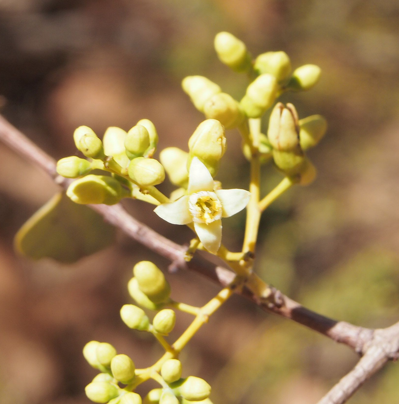 Santalum lanceolatum flower